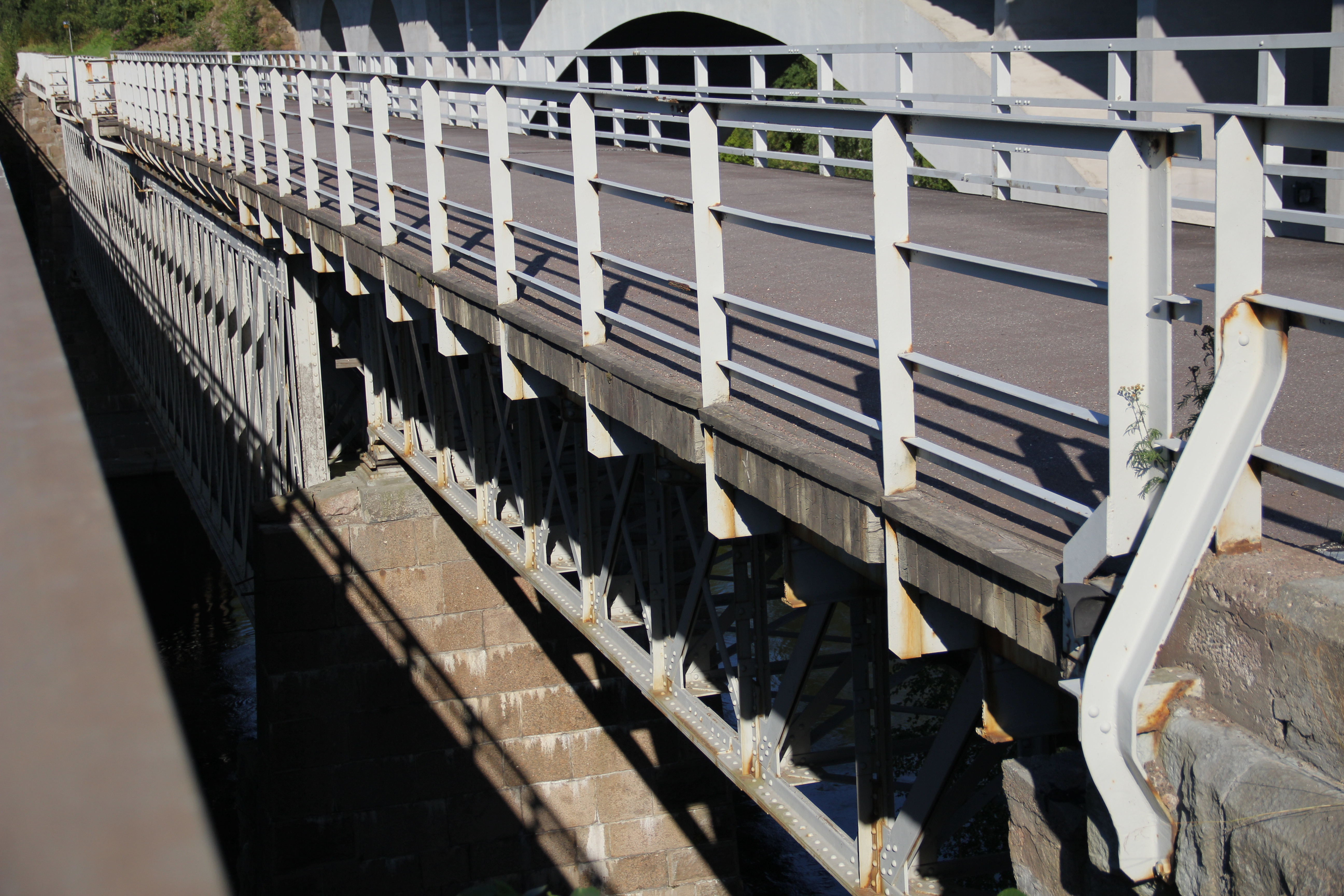 Koria museum bridge, Kouvola, Finland. - Iron truss bridge, completed in 1870. Middle span is original, made of puddled iron. Other two spans were originally wooden Howe trusses, replaced with iron trusses 1880. Bridge was used first as a railway bridge, since 1926 a road bridge and since 1985 as a pedestrian and bicycle bridge.